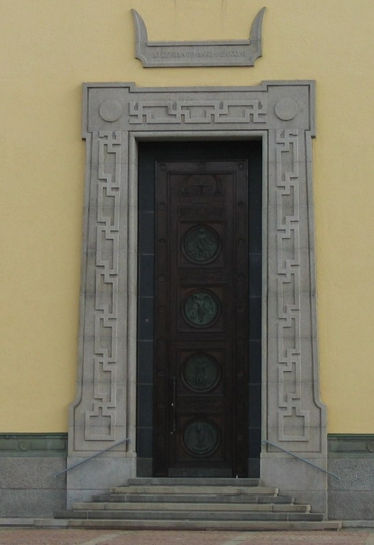 Finnish Evangelical Lutheran church doorway with swastikas around it